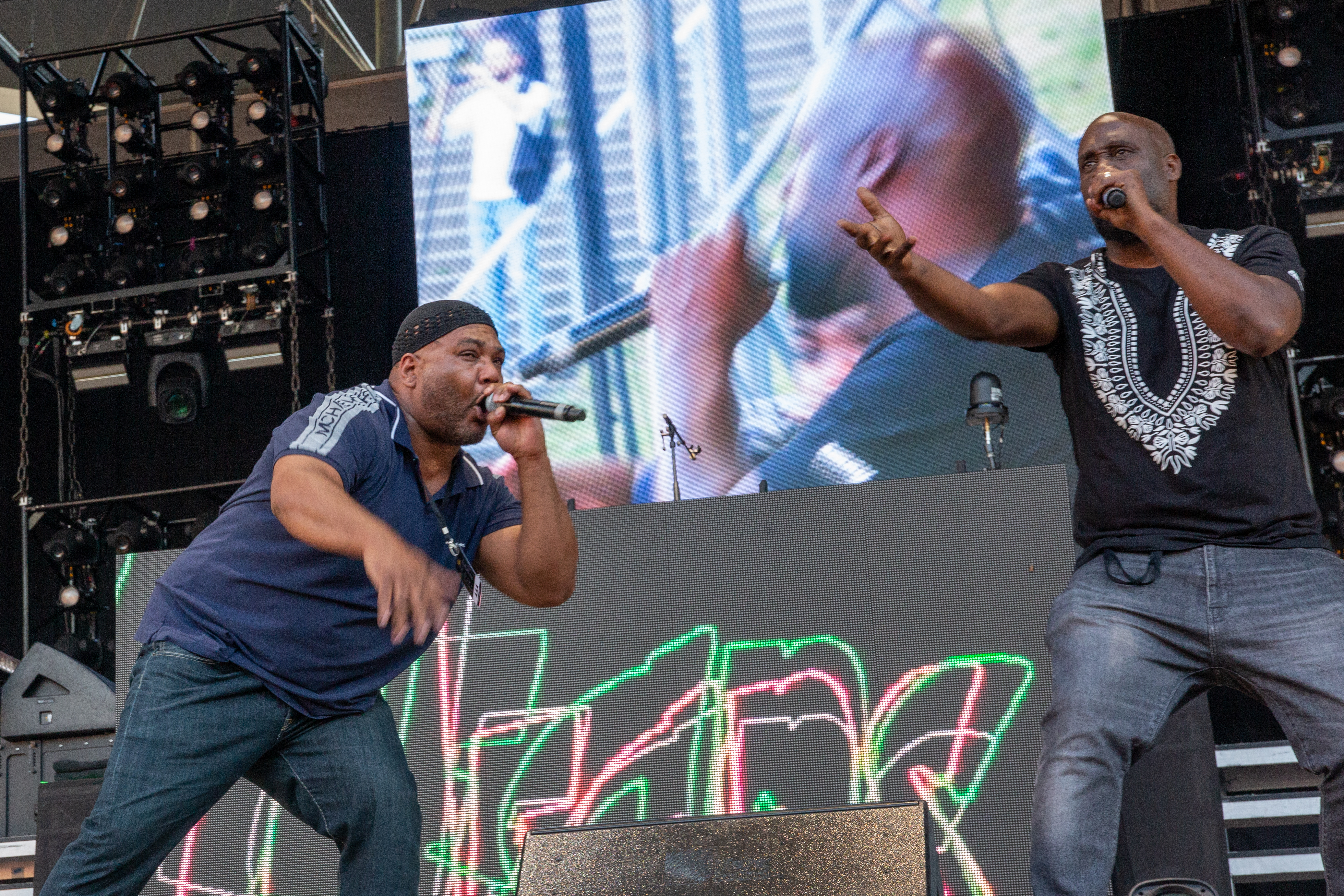 Kelvin Mercer aka Posdnous and Vincent Mason aka Maseo of De La Soul at Gods of Rap 2019 in Berlin, Germany - Parkbühne Wuhlheide